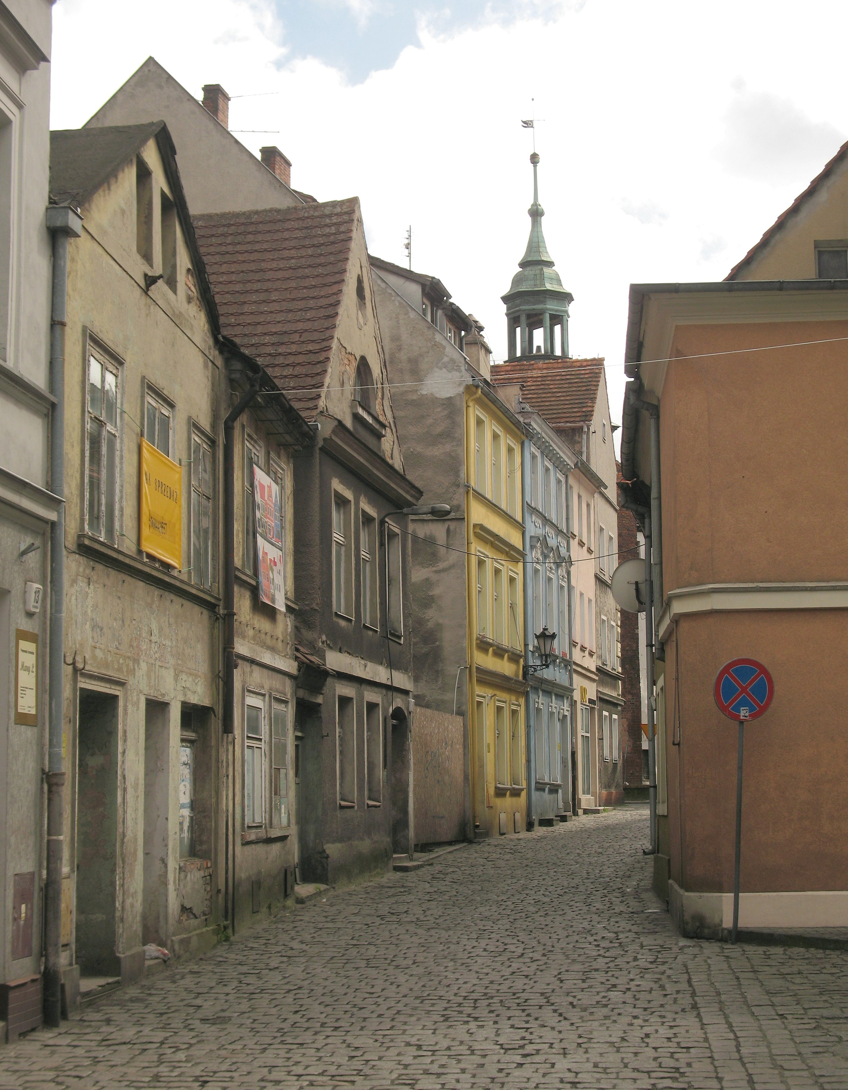 Masarska Street in Zielona Góra, Poland